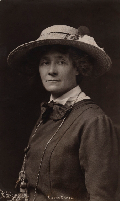 Edith Craig by Lena Connell 1910s